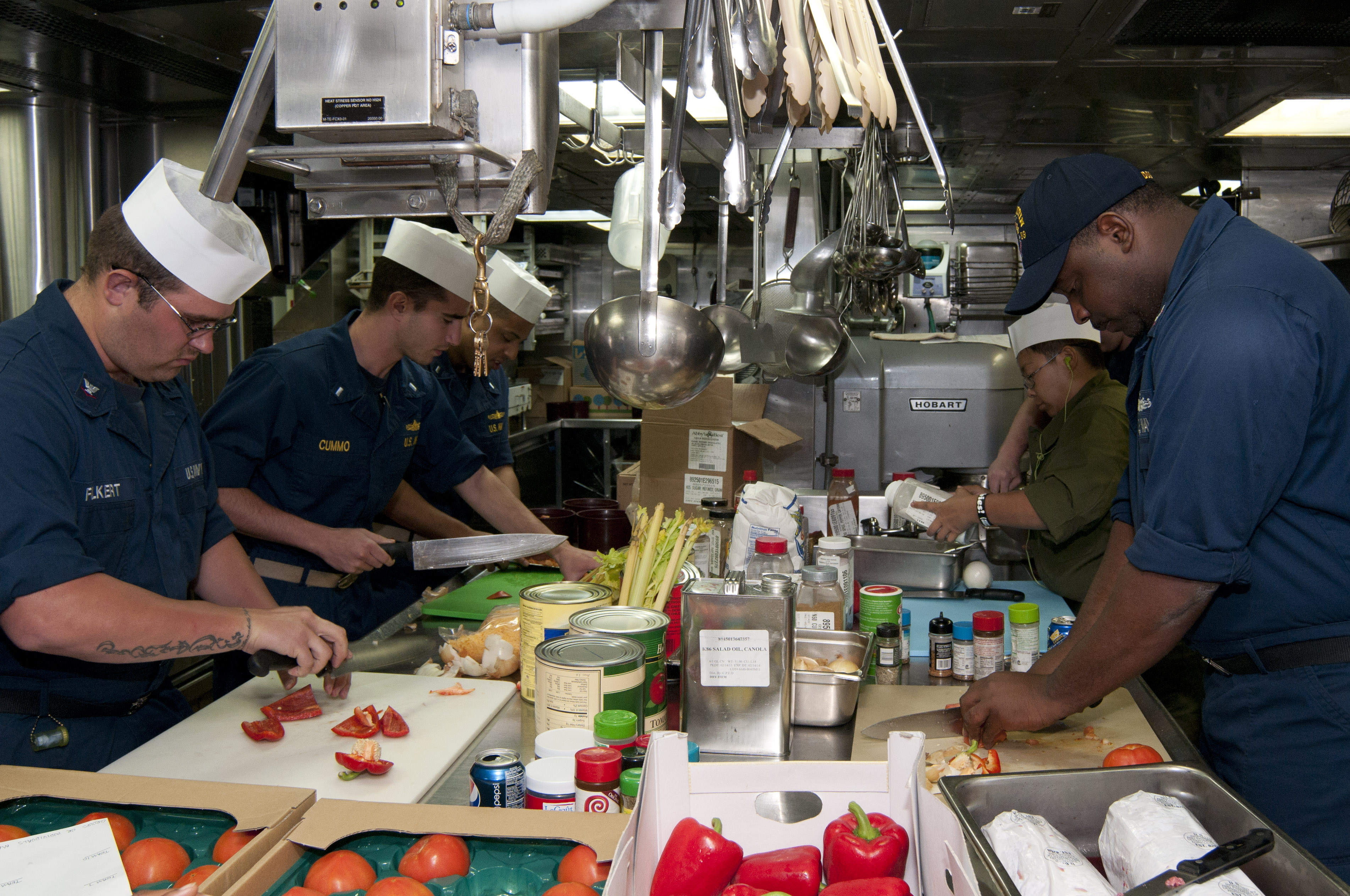 PACIFIC OCEAN (Sept. 24, 2011) Sailors aboard the guided-missile destroyer USS Mustin (DDG 89) prepare ingredients during a chili cook-off competition sponsored by the Moral Welfare and Recreation program. Mustin is one of seven Arleigh Burke-class guided-missile destroyers assigned to Destroyer Squadron (DESRON) 15 and is on patrol in the western Pacific. (U.S. Navy photo by Mass Communication Specialist 3rd Class Mikey Mulcare/Released) 110924-N-EA192-129